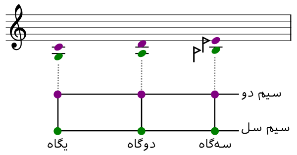 PNG version of File:Segah-on-tanbur-1.svg with the right font.